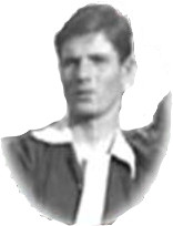 Marcial Simões de Freitas e Costa (1891–1944), Portuguese architect, army officer, and soccerplayer